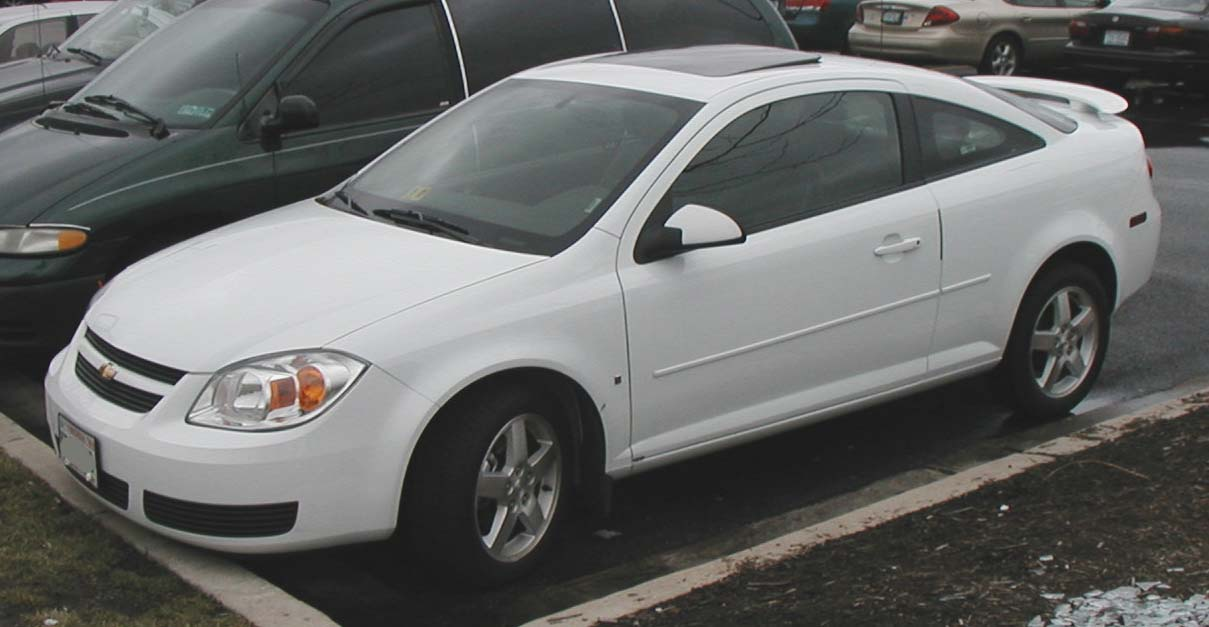 2005-2007 Chevrolet Cobalt coupe photographed in USA.